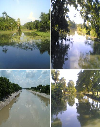 Hatashe Channel in Barovatra, Nanikhir, Nawkhanda and Pathorghata photo taken by Me and Robin